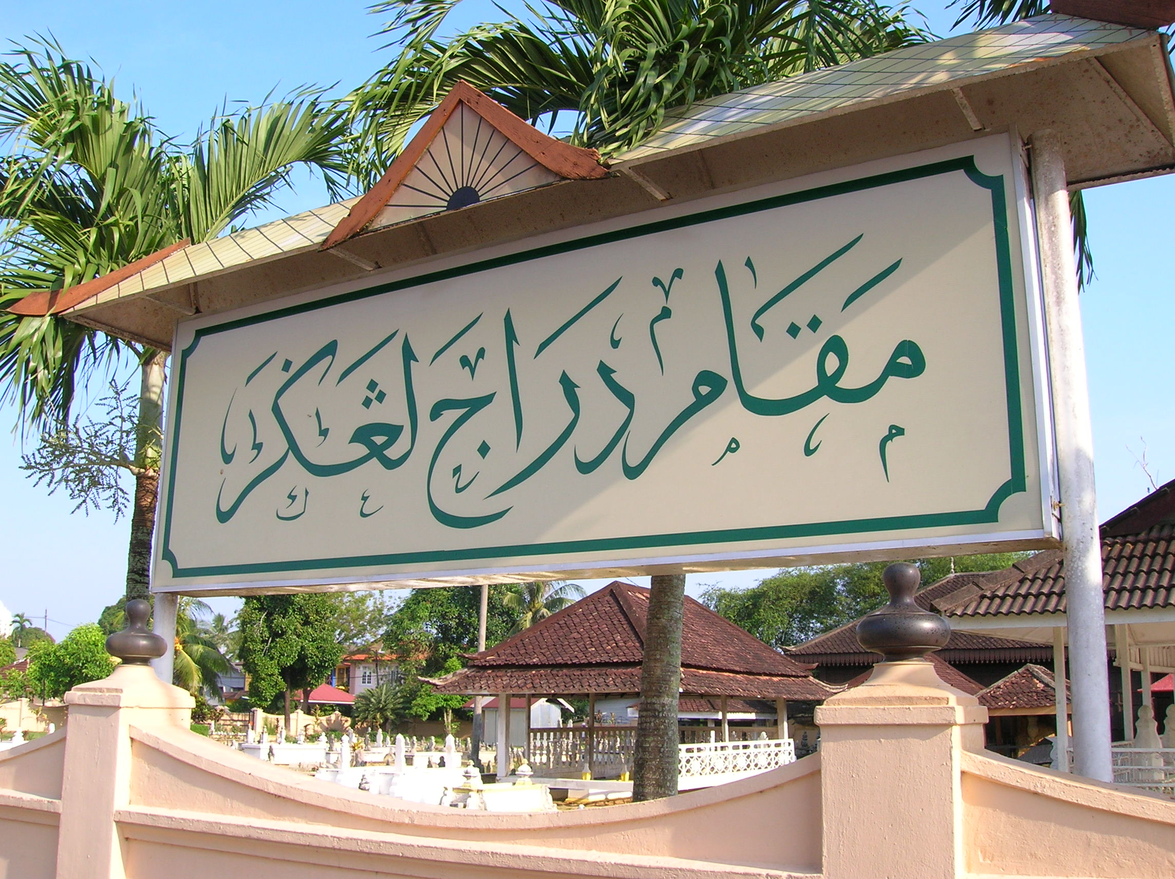 Signboard of the Makam Diraja Langgar located in the state of Kelantan in Malaysia. The signboard uses the Jawi script written in simple Islamic calligraphy. The Jawi text reads: مقام دراج لڠڬر The Jawi script does not use diacritics. Diacritics are used when writing Jawi in Islamic calligraphy style.